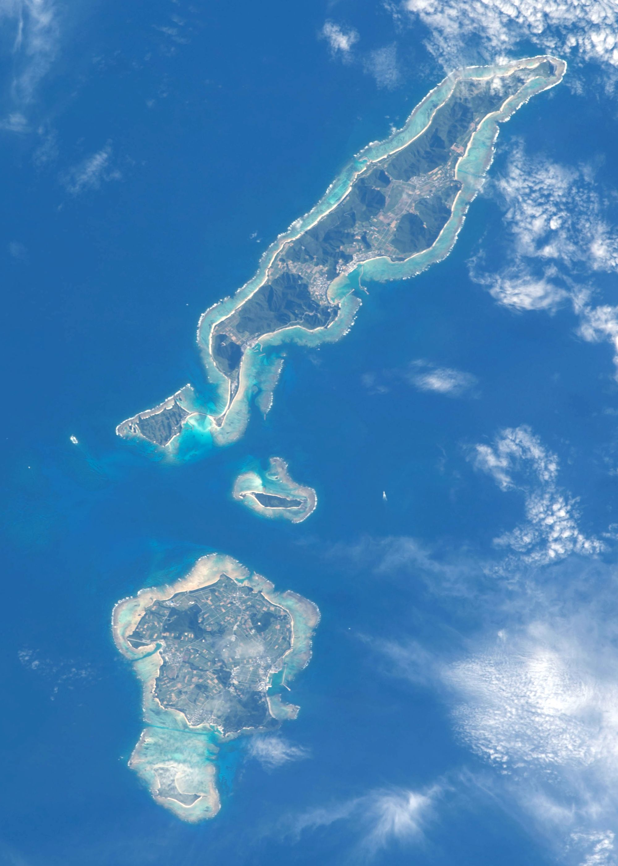 Iheya-Izena Islands, a island group in Okinawa Islands, Okinawa Prefecture, Japan.